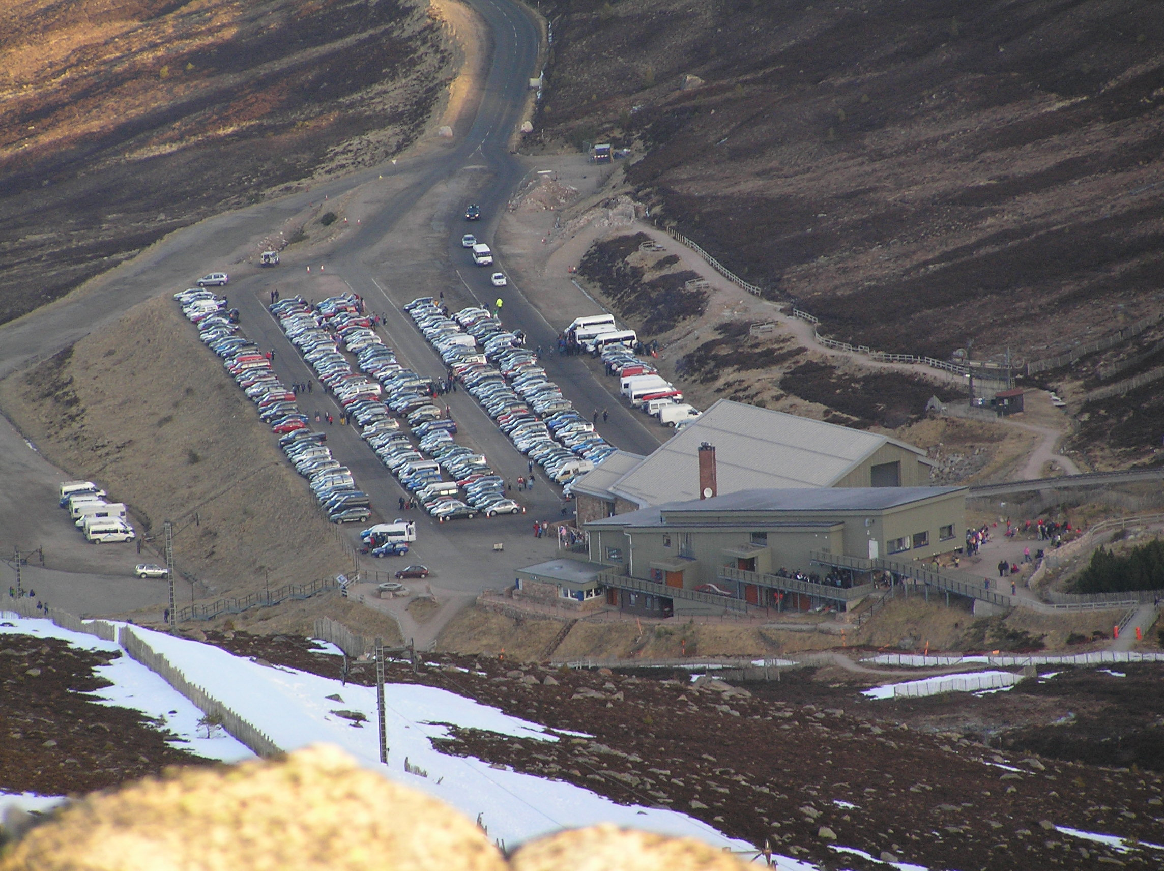 Cairngorm ski resort base station.